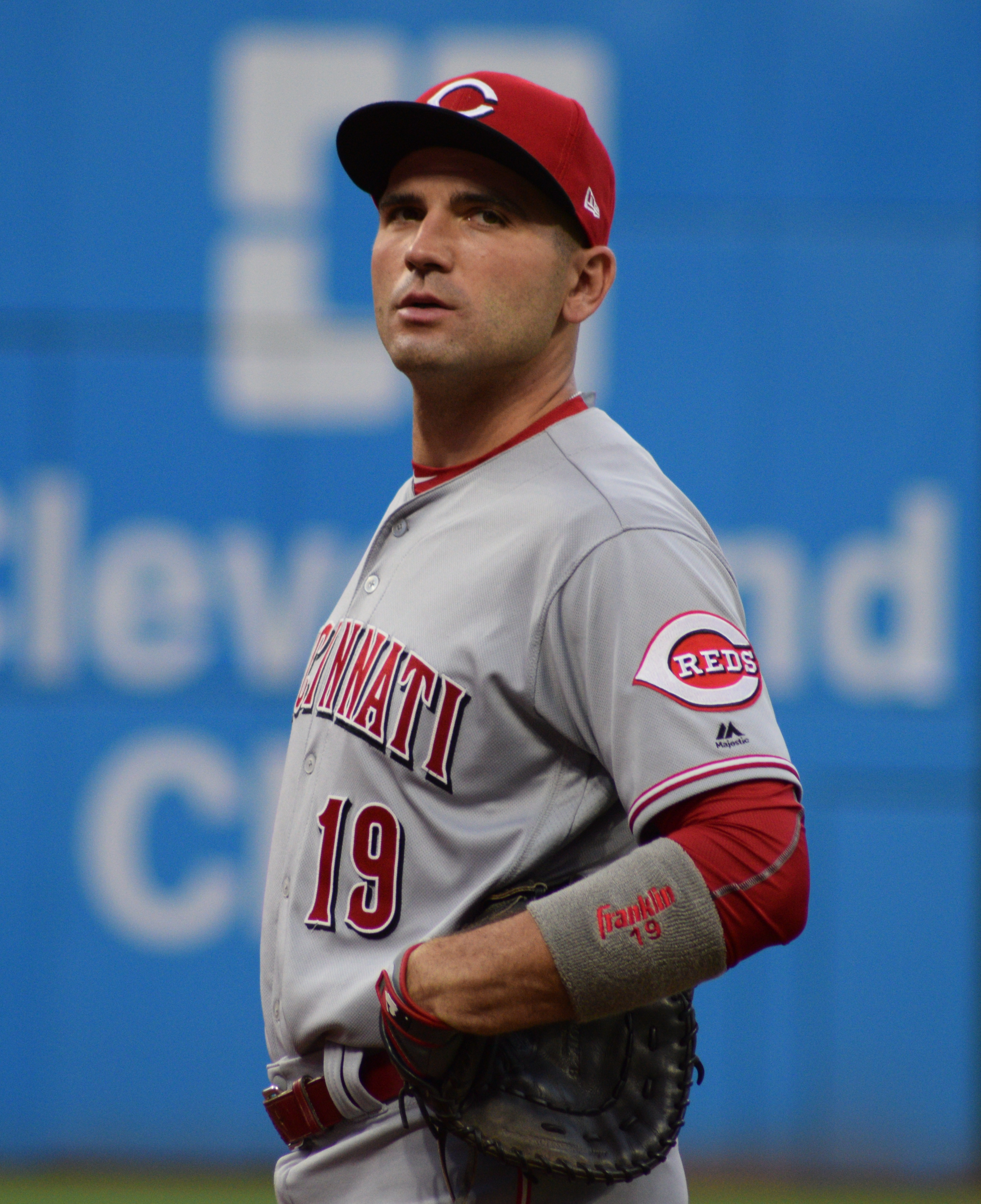 Votto with the reds in 2017